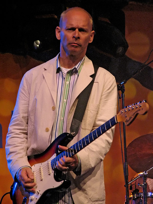 Wayne on Times Square 2009 (c)TracyKetcher, April 30, 2009- photo: Wayne on Times Square (c)TracyKetcher